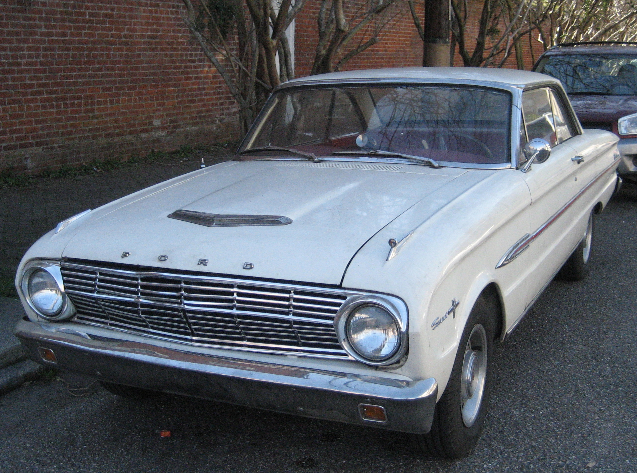 1963 Ford Falcon Spirit in the Lower Garden District neighborhood of New Orleans